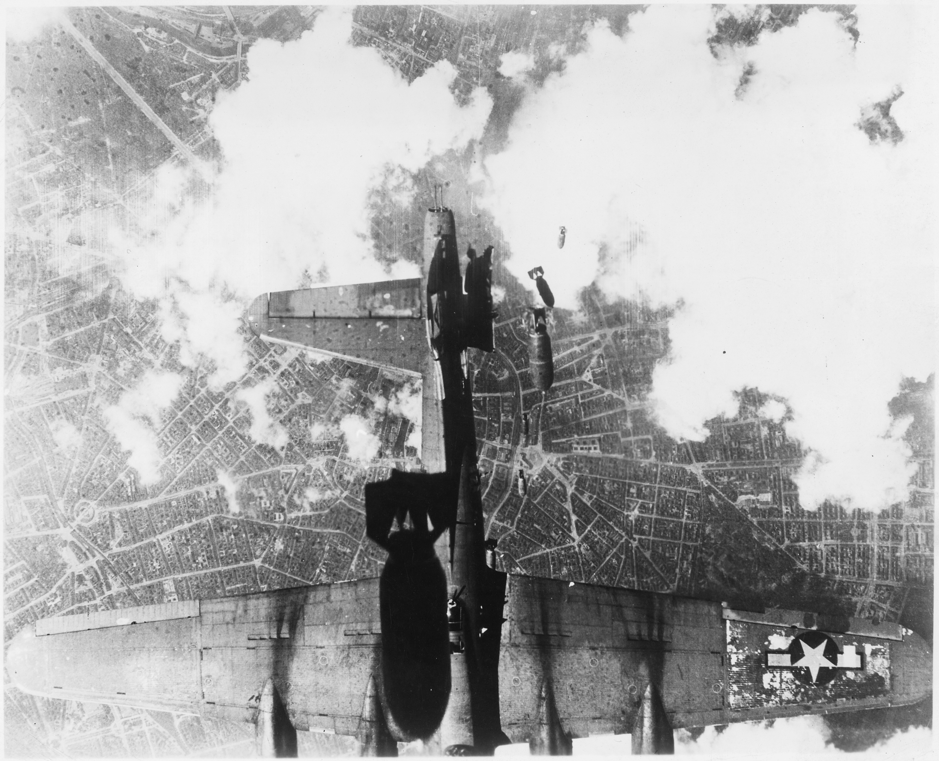 B-17G Fortress Miss Donna Mae II drifted under another bomber on a bomb run over Berlin, 19 May 1944. A 1,000 lb bomb from above tore off the left stabilizer and sent the plane into an uncontrollable spin. All 11 were killed.[1] ↑ B-17G Fortress 'Miss Donna Mae II'.... World War II Database. Retrieved on 2020-06-25.